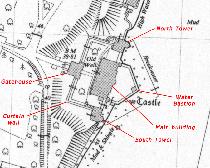 Upnor Castle - extract from Ordnance Survey National Grid map